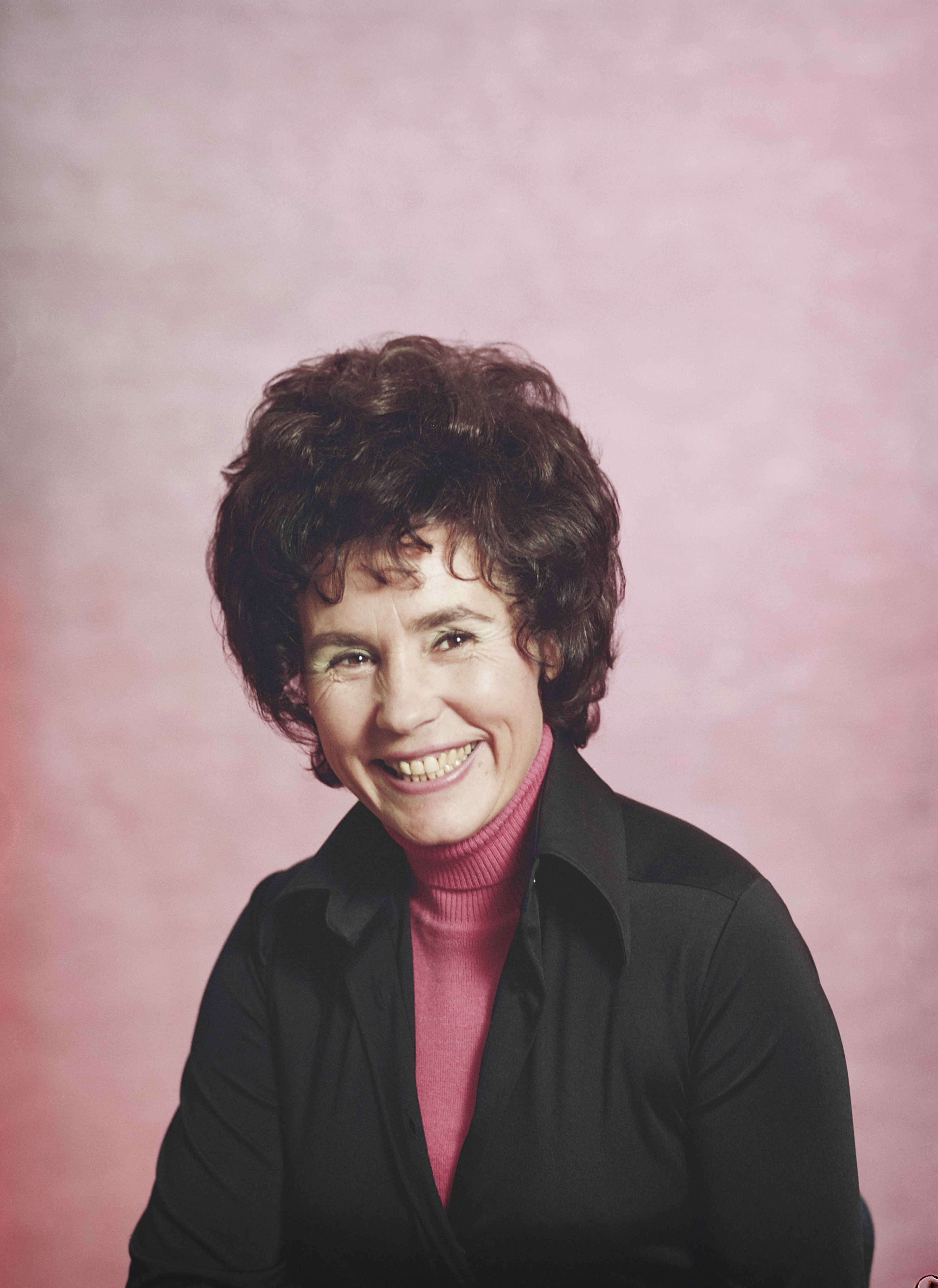 Photograph of the Finnish entrepreneur Satu Vuoristo, from 1975 Satu Tiivola (1924–).